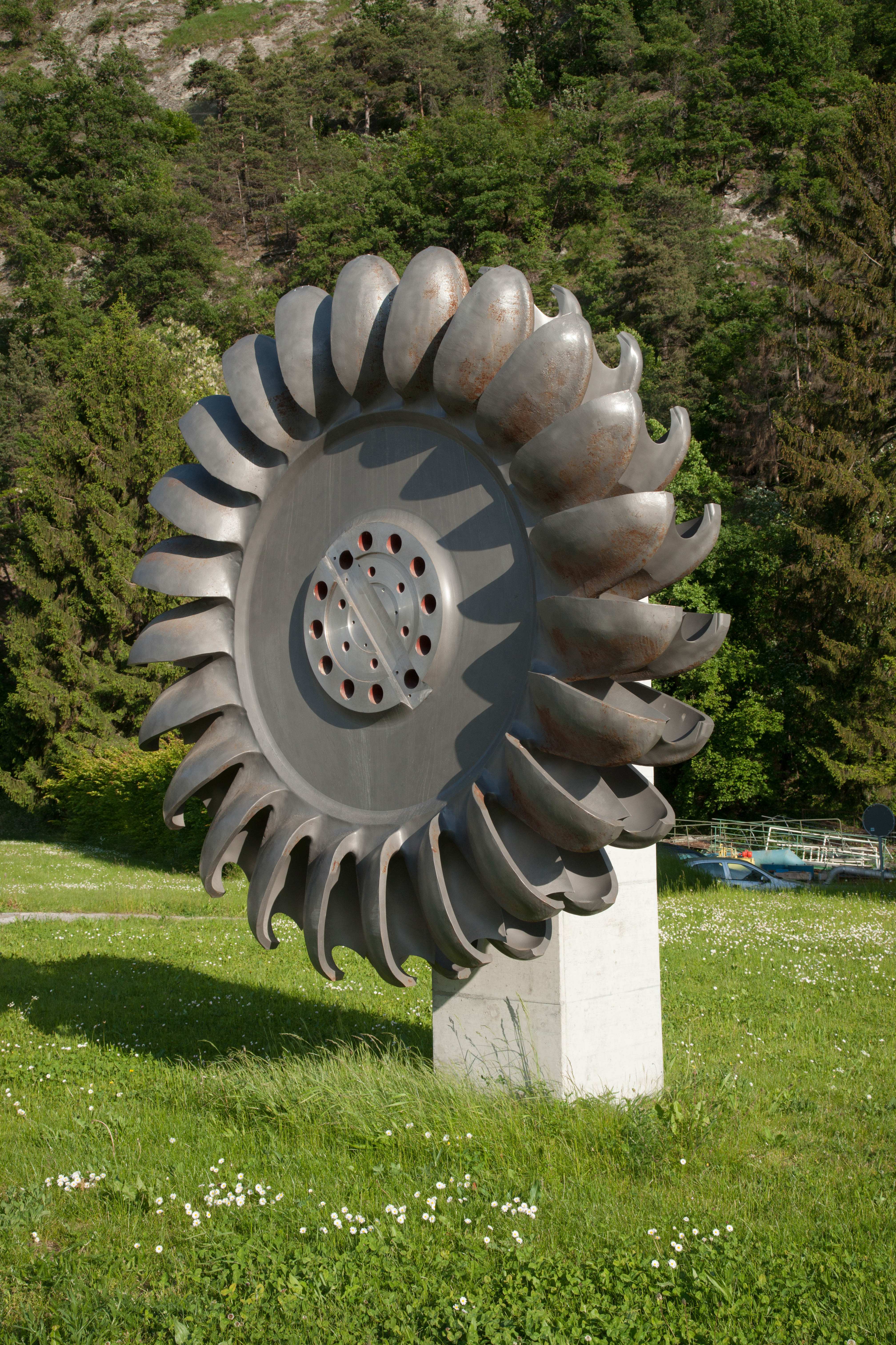 Pelton wheel, behind the Bieudron firm, in Walis (switzerland). It's a part of Grande Dixence.